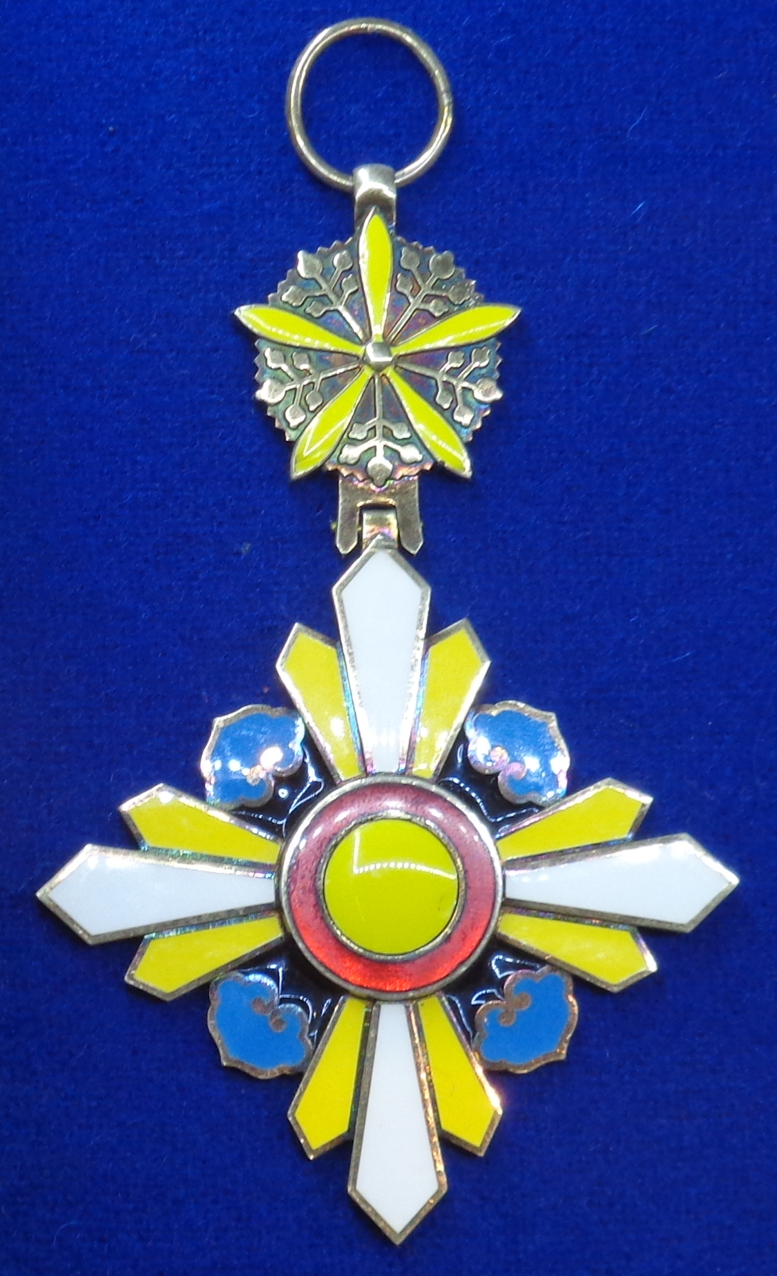 Order of the Auspicious Clouds, badge of Grand Cordon. Empire of Manchukuo. The exhibition of the Tallinn Museum of Orders of Knighthood, Estonia.